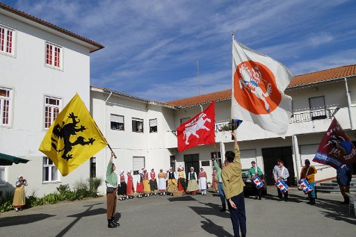 Vendelzwaaien